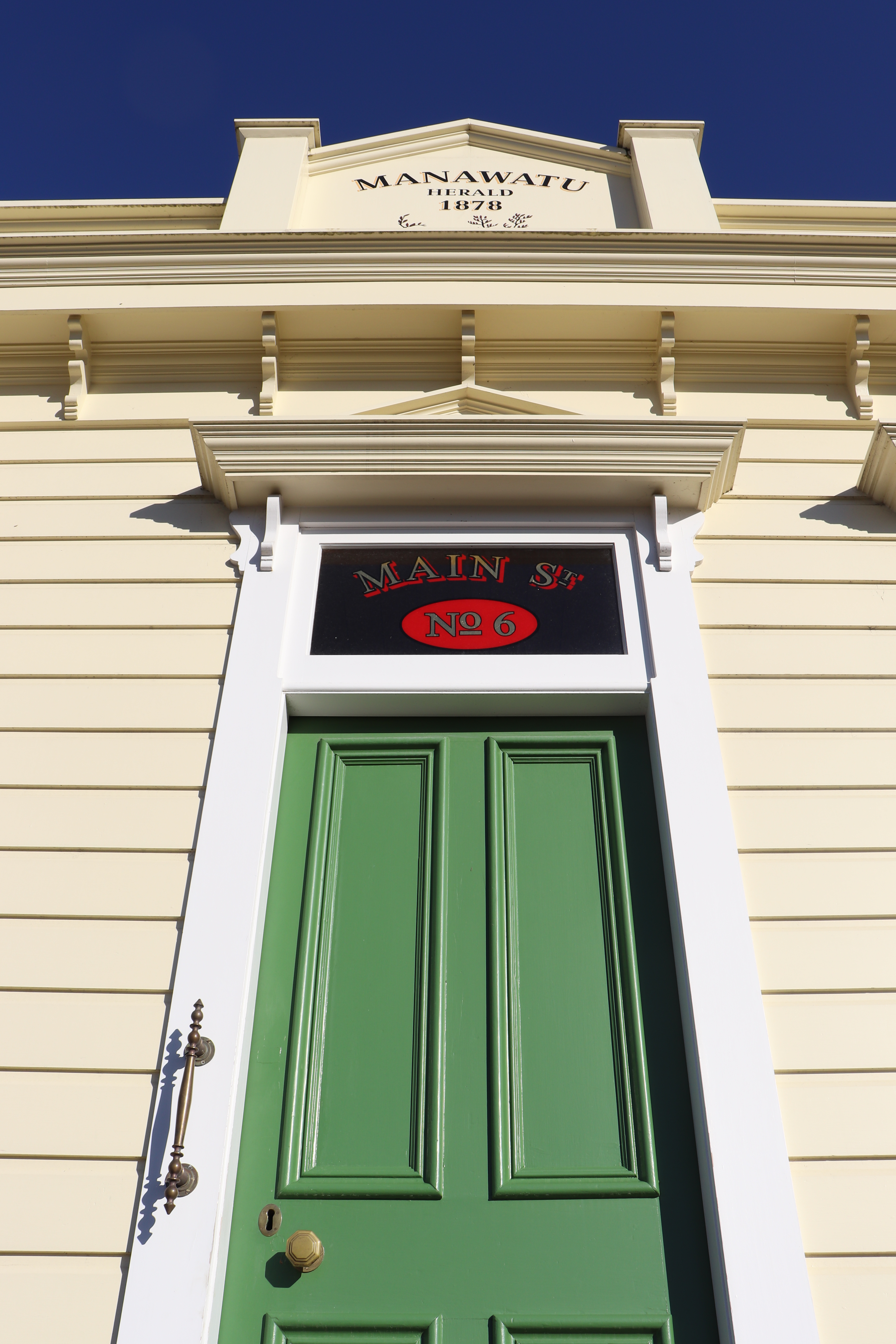 One of the oldest Newspapers in the Country - Foxton